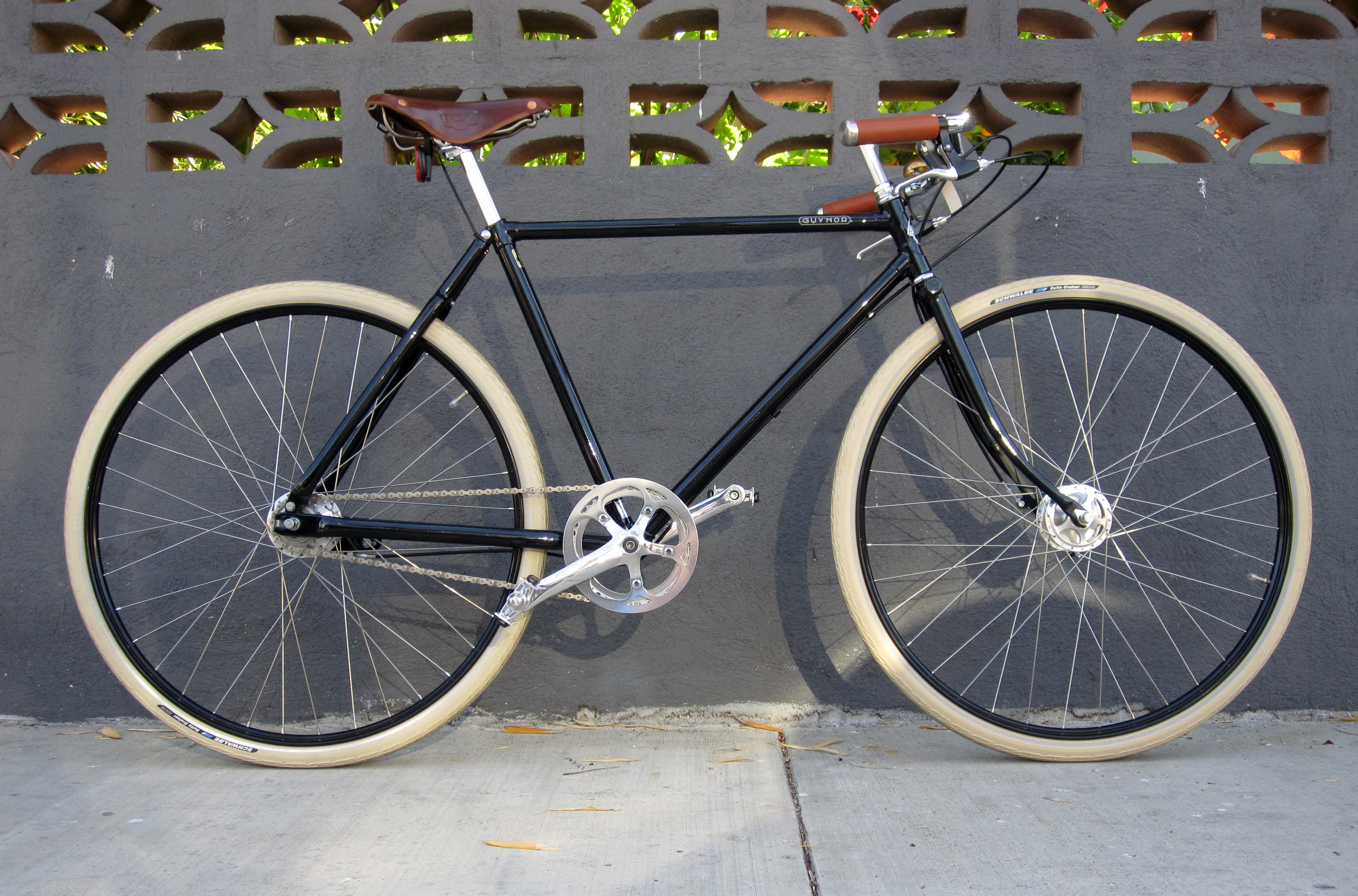 Pashley Guv'nor 20" single speed, reminiscent of a 1930's path racer